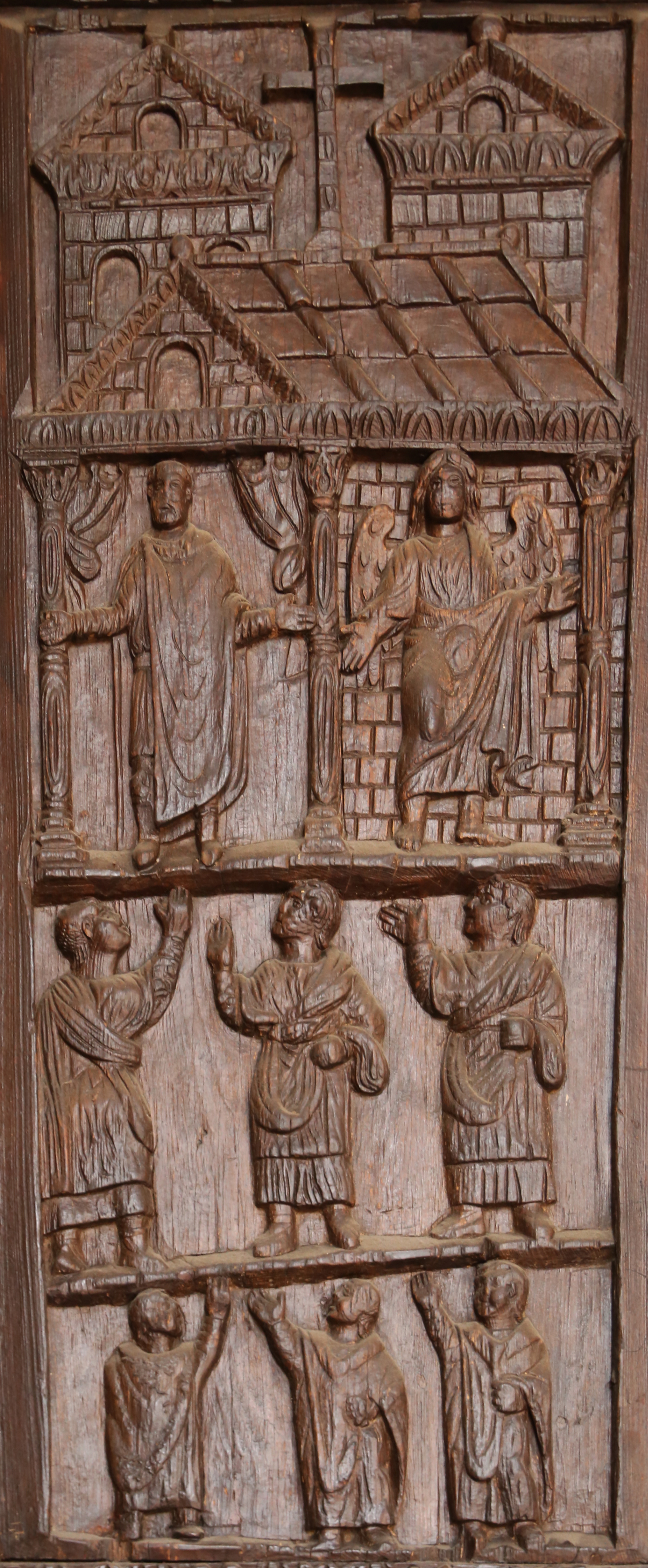 Doors of Santa Sabina (Rome)